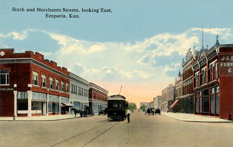 Intersection of Sixth Avenue and Merchant Street, looking east, Emporia, Kansas